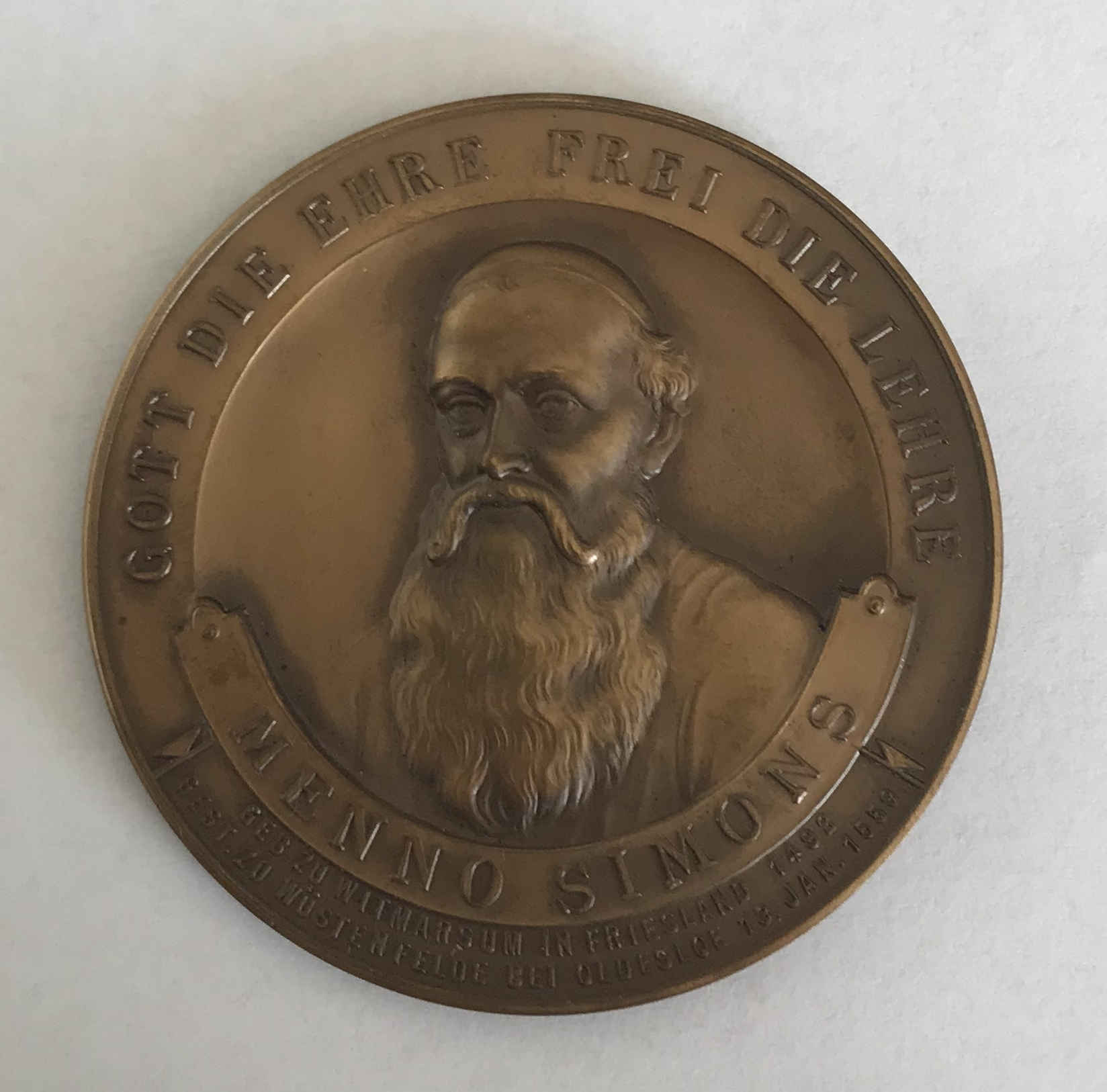 Obverse side of a bronze medal "Zur Erinnerung A.D.25 Jaehrige Bestehen der Berliner Mennoniten Gemeinde" presenting the bust of Menno Simmons with the following statements: GOTT DIE EHRE FREI DIE LEHRE (above the bust); MENNO SIMONS / GEB. ZU WITMARSUM IN FRIESLAND 1492 / GEST. ZU WŰSTENFELDE BEI OLDESLOE 13. JAN. 1559